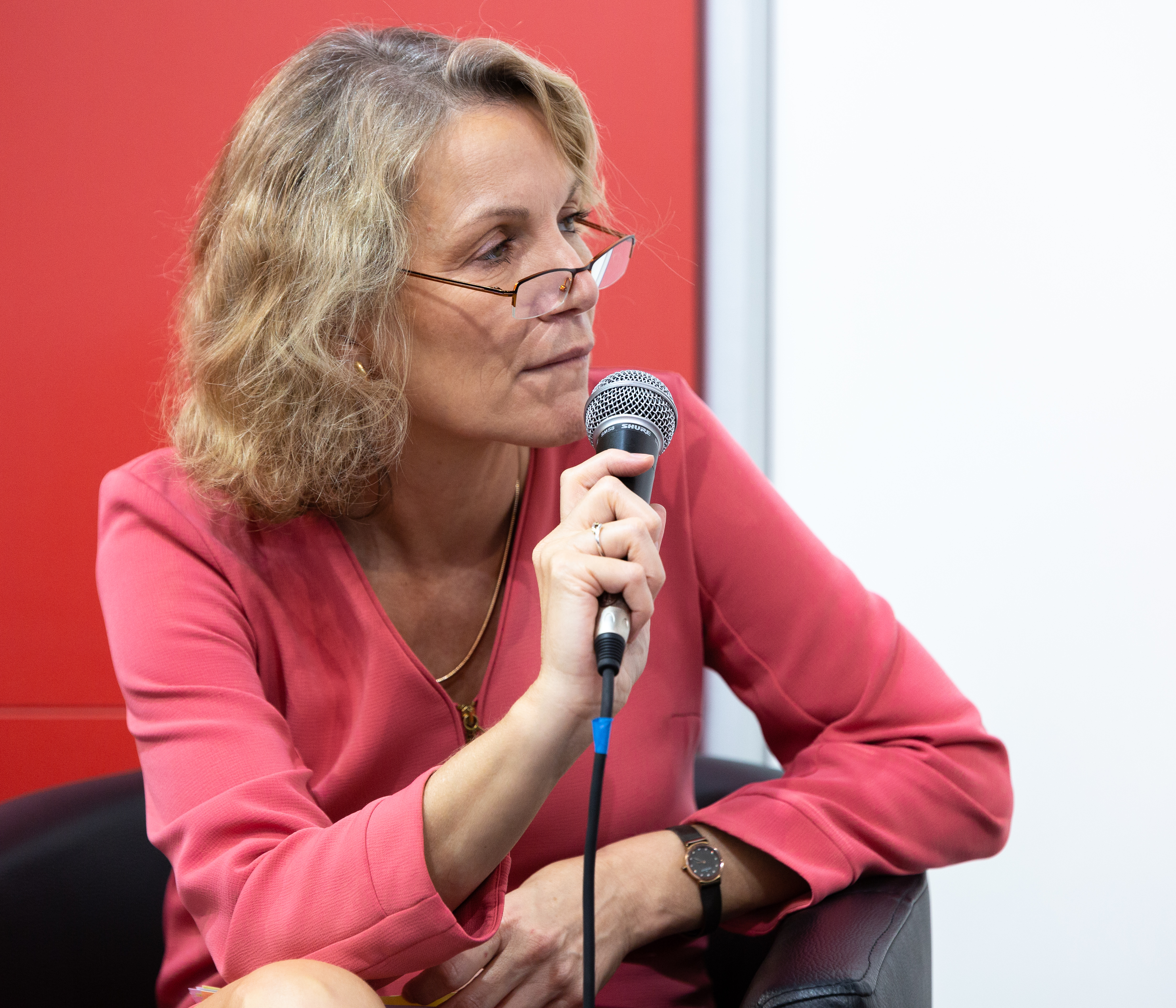 Karin Nink at the Frankfurt Book Fair 2018